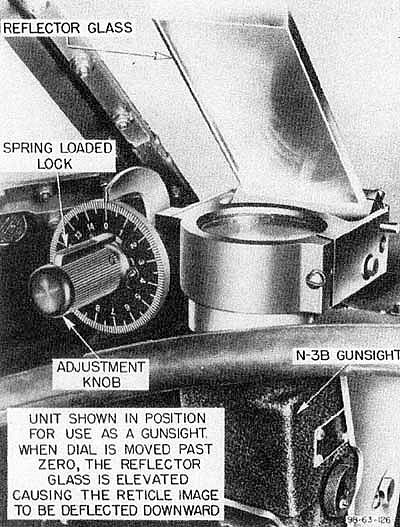 B-25H (PB1-H) N3B reflector gunsight with A-1 sighting head